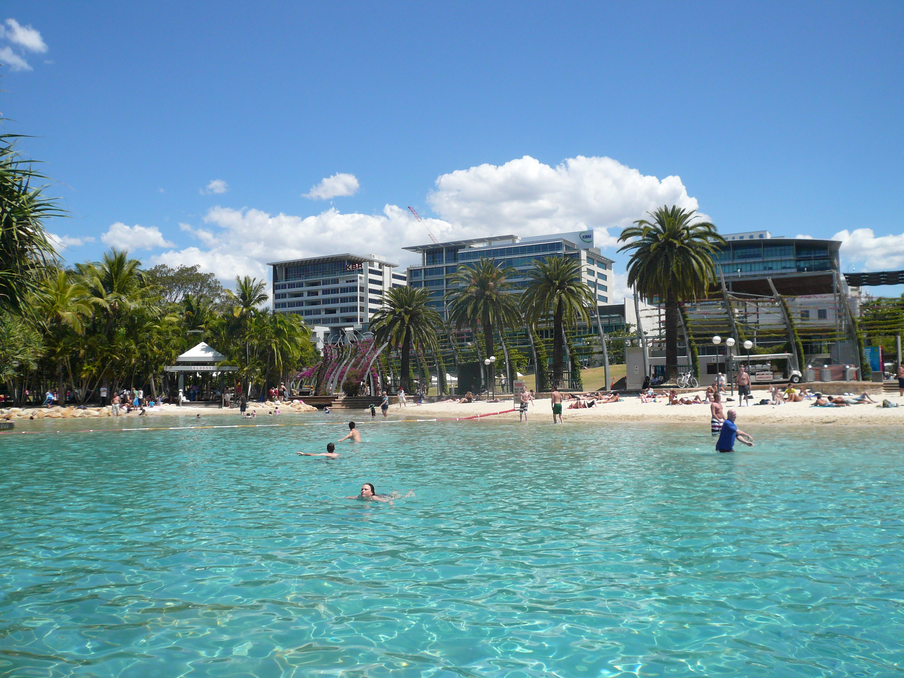 South Bank, Brisbane.